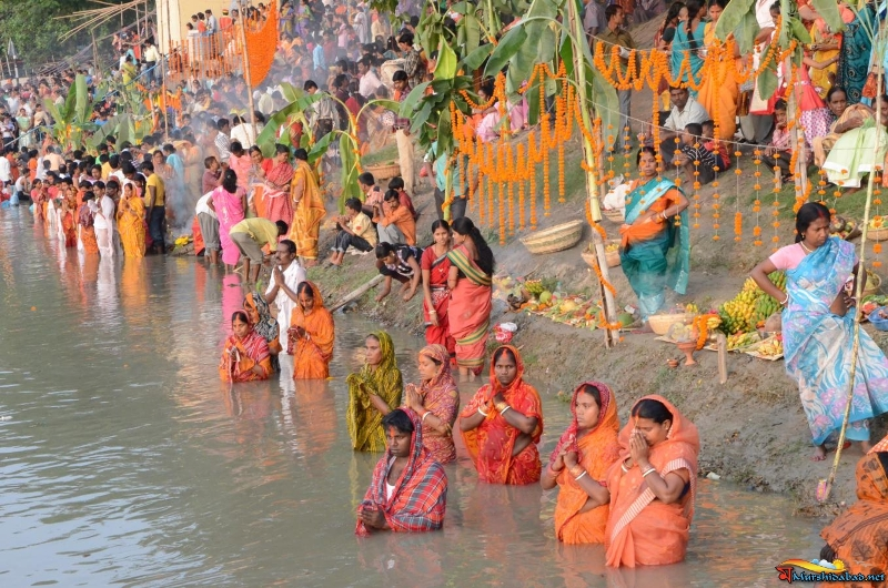 छठ पूजा